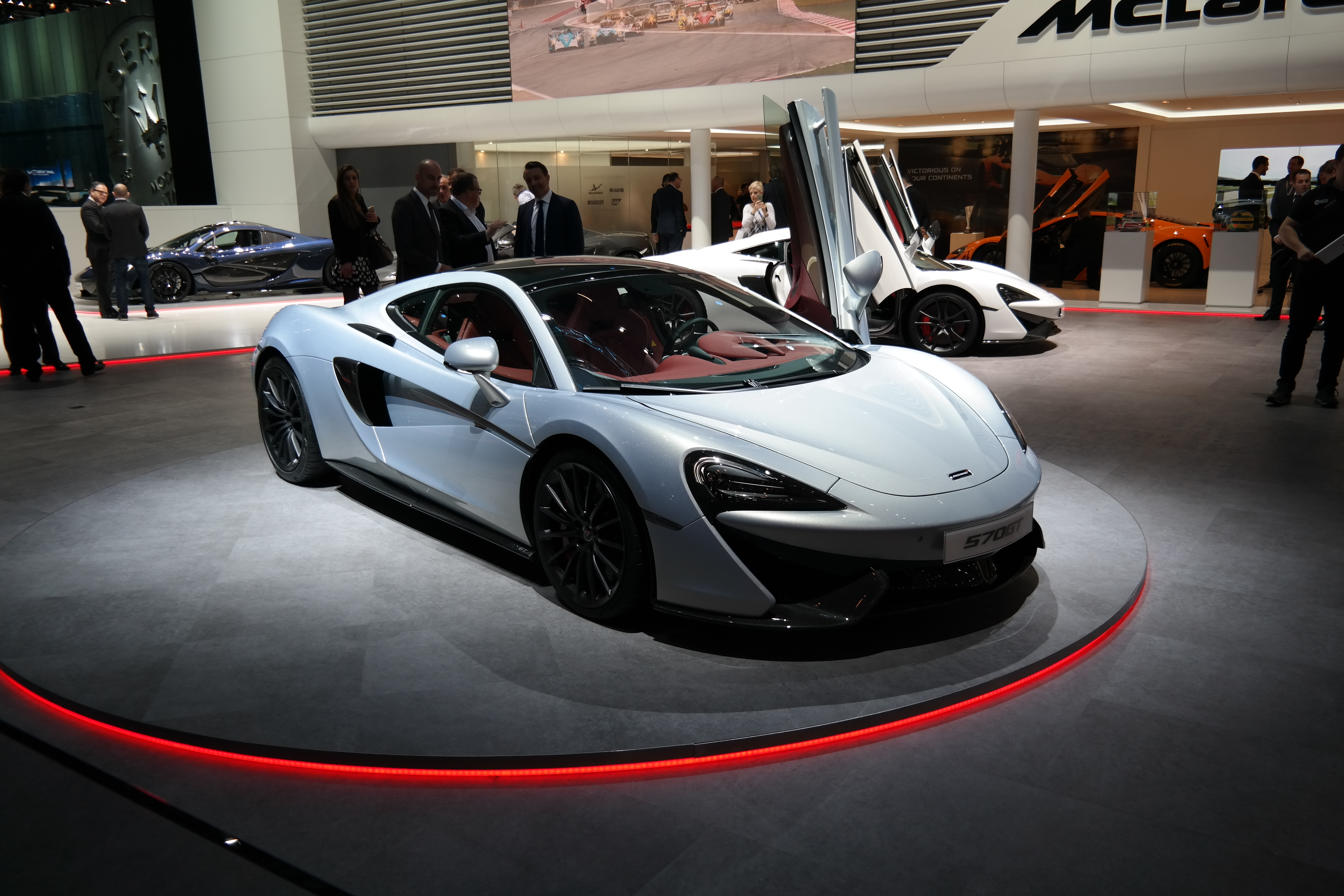 Geneva Motor Show 2016 (photo taken on the first press day)